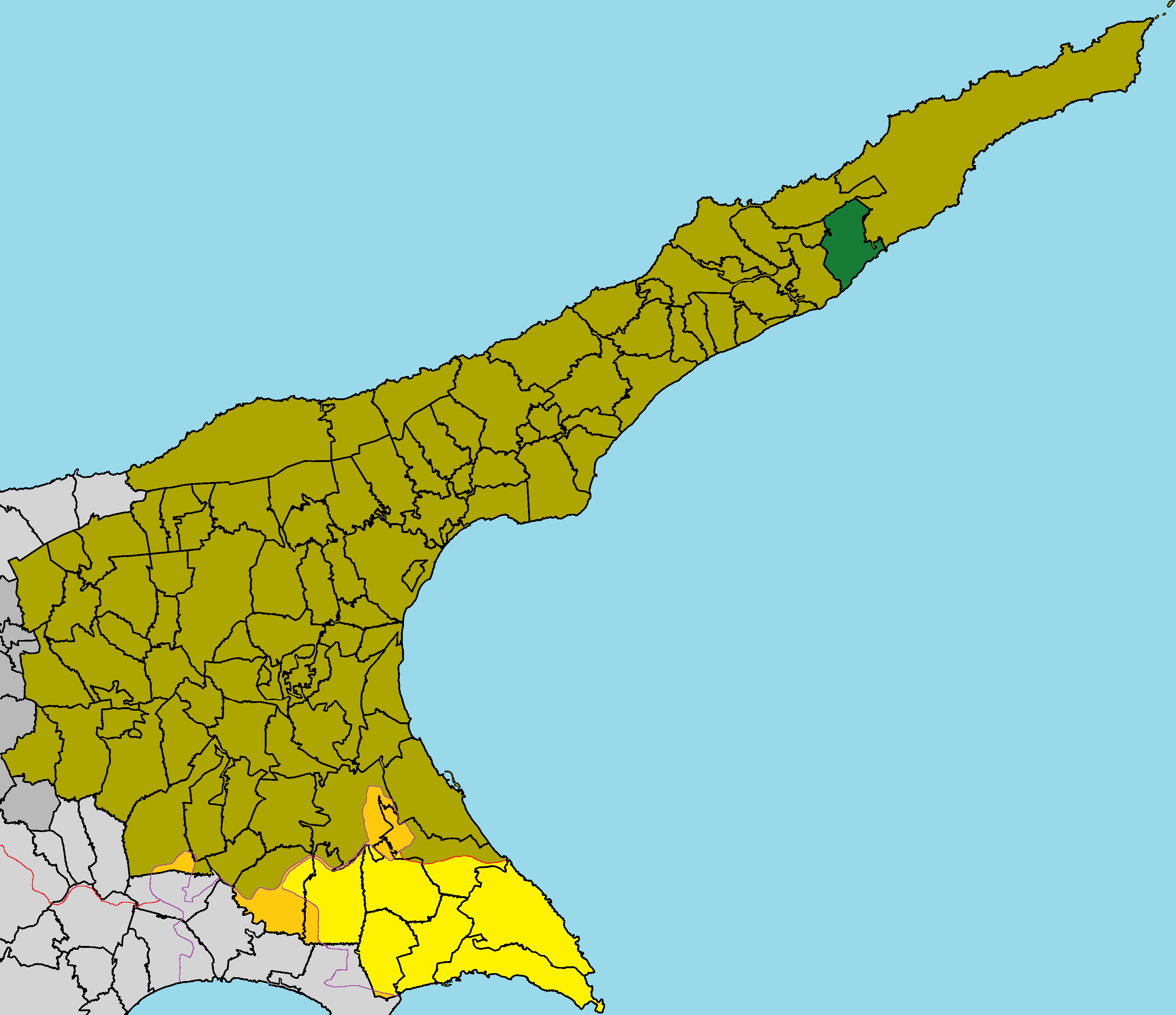 Galinoporni in Famagusta District (de jure).